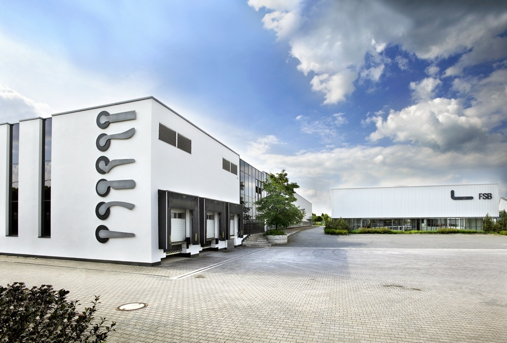 Franz Schneider Brakel (FSB) factory and headquarter